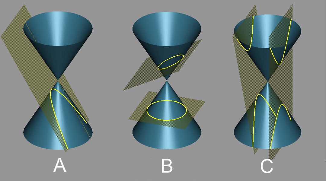 Language neutral version of Image:Conic sections 2.png.